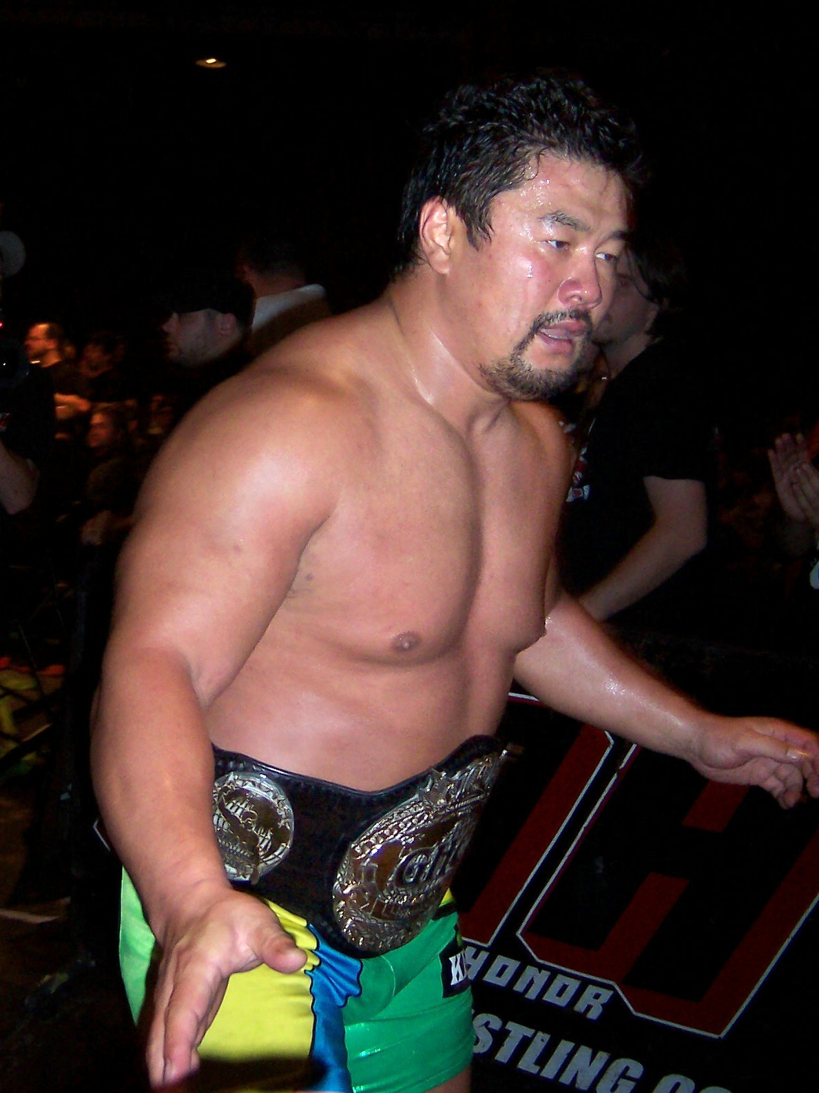 Kensuke Sasaki after his GHC Heavyweight Championship defense against Claudio Castagnoli in September 2008.